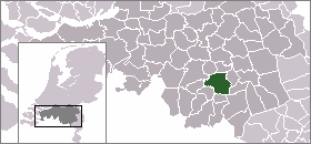 Location of Eindhoven